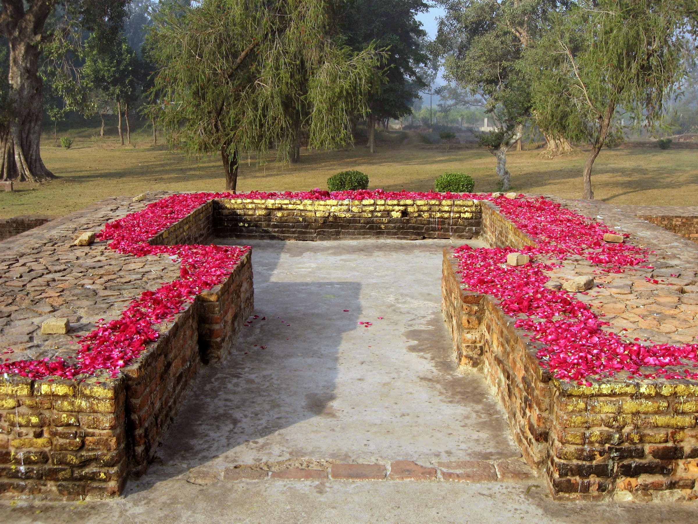 Mulagandhakuti in Jetavana Monastery, Sravasti, Uttar Pradesh, India. This is the place (or hut) where the Buddha used to stay when he lived in Jetavana Monastery, close to the ancient city of Sravasti. Flowers are put by Buddhist pilgrims.